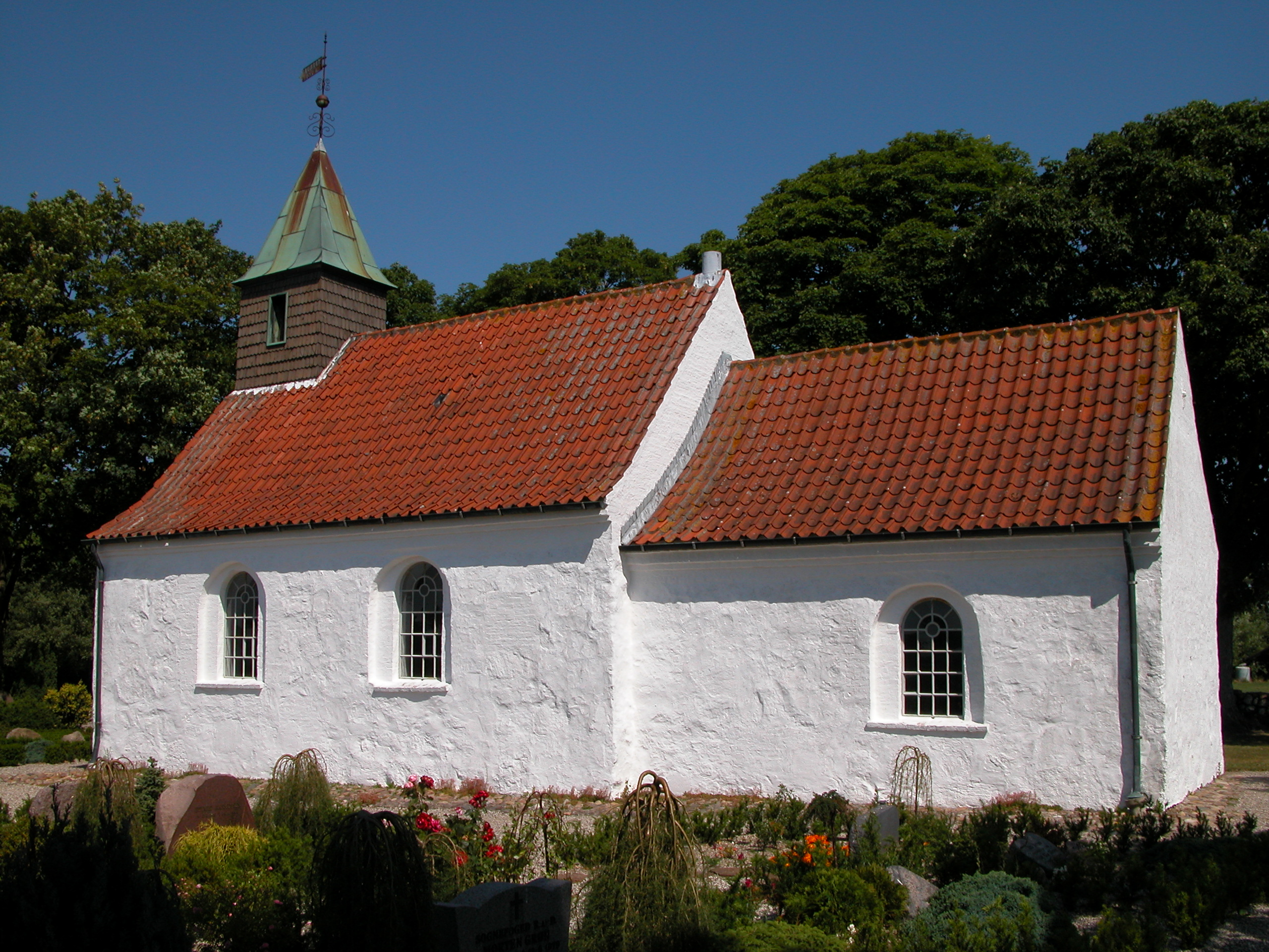 Church of Hjarnø, Horsens Fjord, Denmark